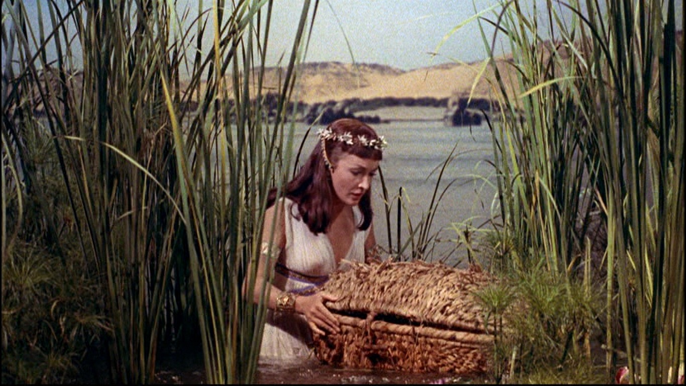 Screenshot of Nina Foch from the trailer for the film The Ten Commandments.